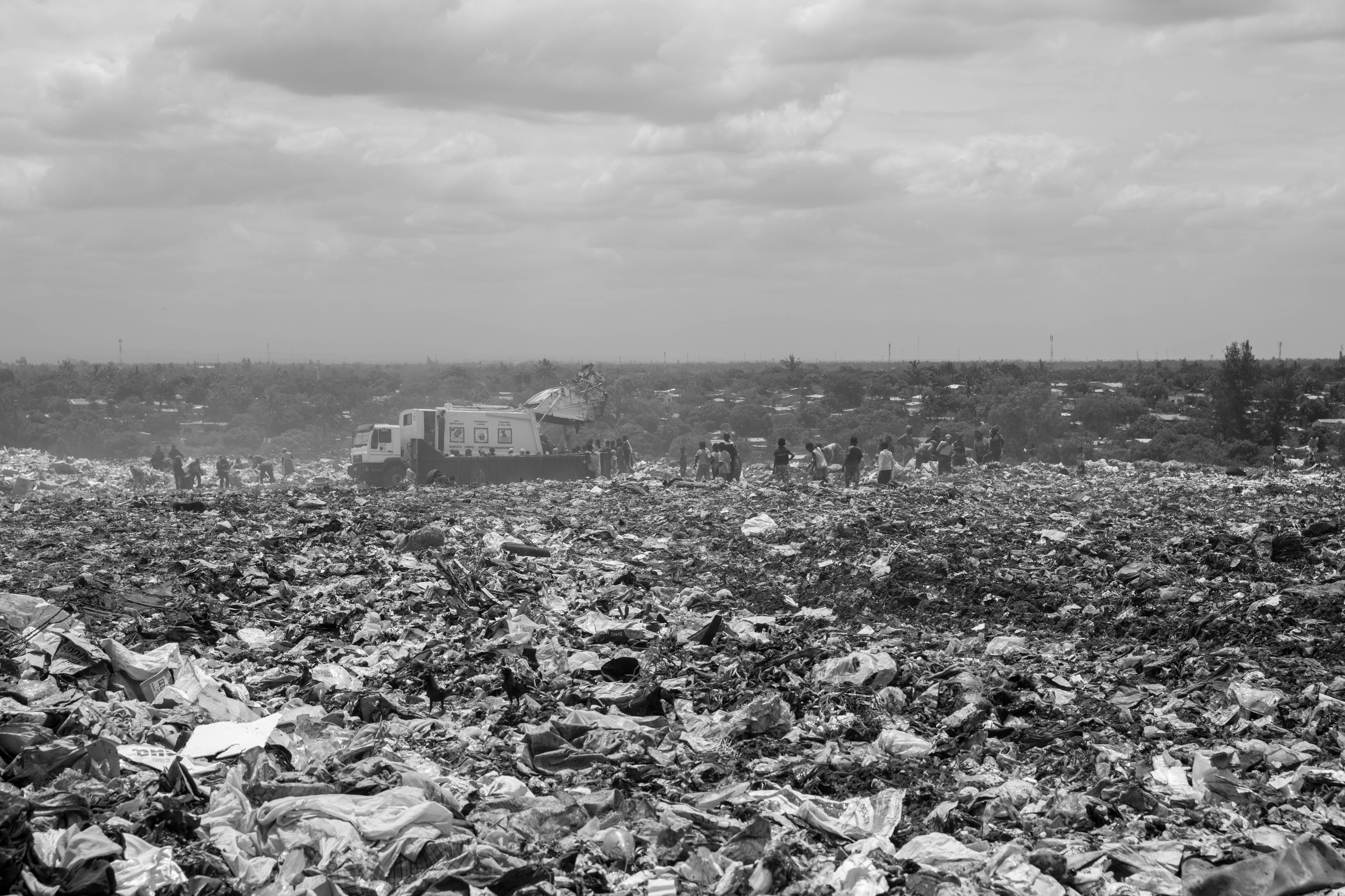 Scenery at the waste dump of Hulene, Maputo, Mozambique